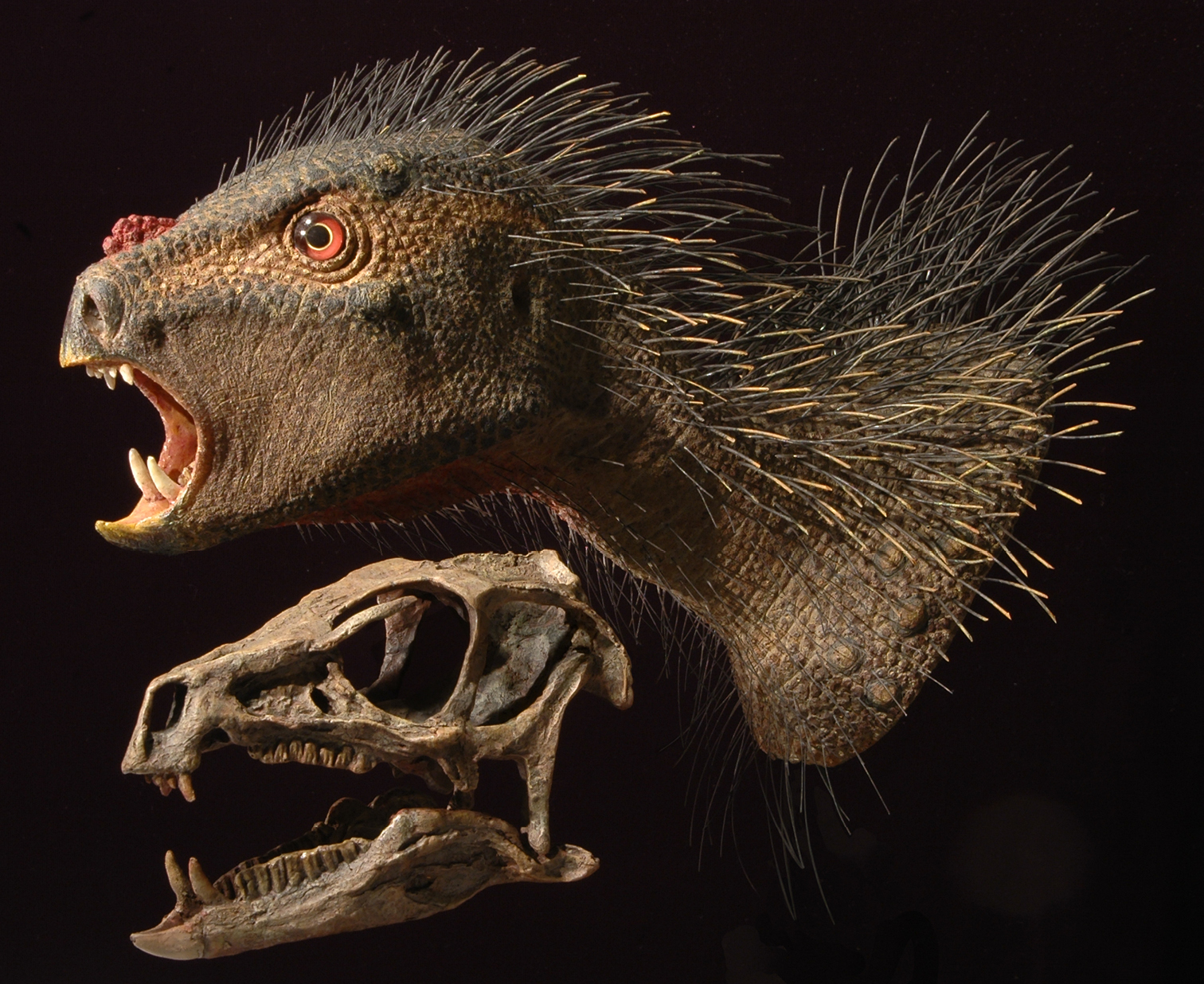 Flesh reconstruction of the head and neck of Heterodontosaurus tucki from the Lower Jurassic Upper Elliot and Clarens formations of South Africa. Flesh head and neck and skull reconstructions with similar gape. The flesh reconstruction was modeled over a skull cast with skin texture based on bone surface details in the skull of Heterodontosaurus tucki (SAM-PK-K1332) and bristles based on those preserved in Tianyulong confuciusi (STMN 26-3).